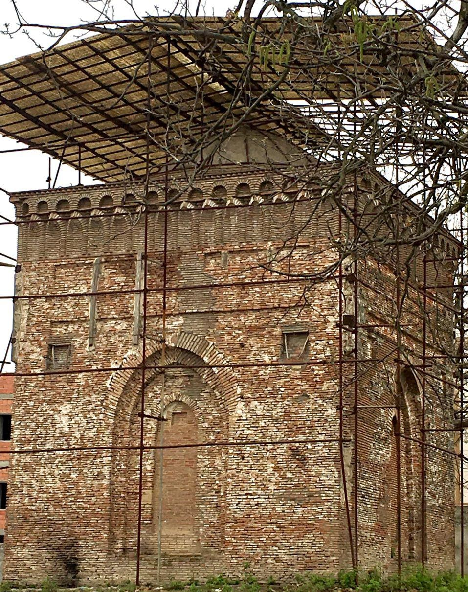 Fireplace of Amol